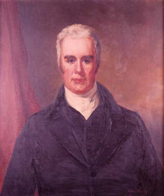 Charles Carnan Ridgely Artist: Florence MacKubin (1857–1918) DescriptionAmerican painterDate of birth/death 19 May 1857 2 February 1918 Location of birth/death Florence BaltimoreAuthority control : Q16059497 creator QS:P170,Q16059497 Date: n.d. Medium: Oil on canvas Dimensions: 25" x 30"